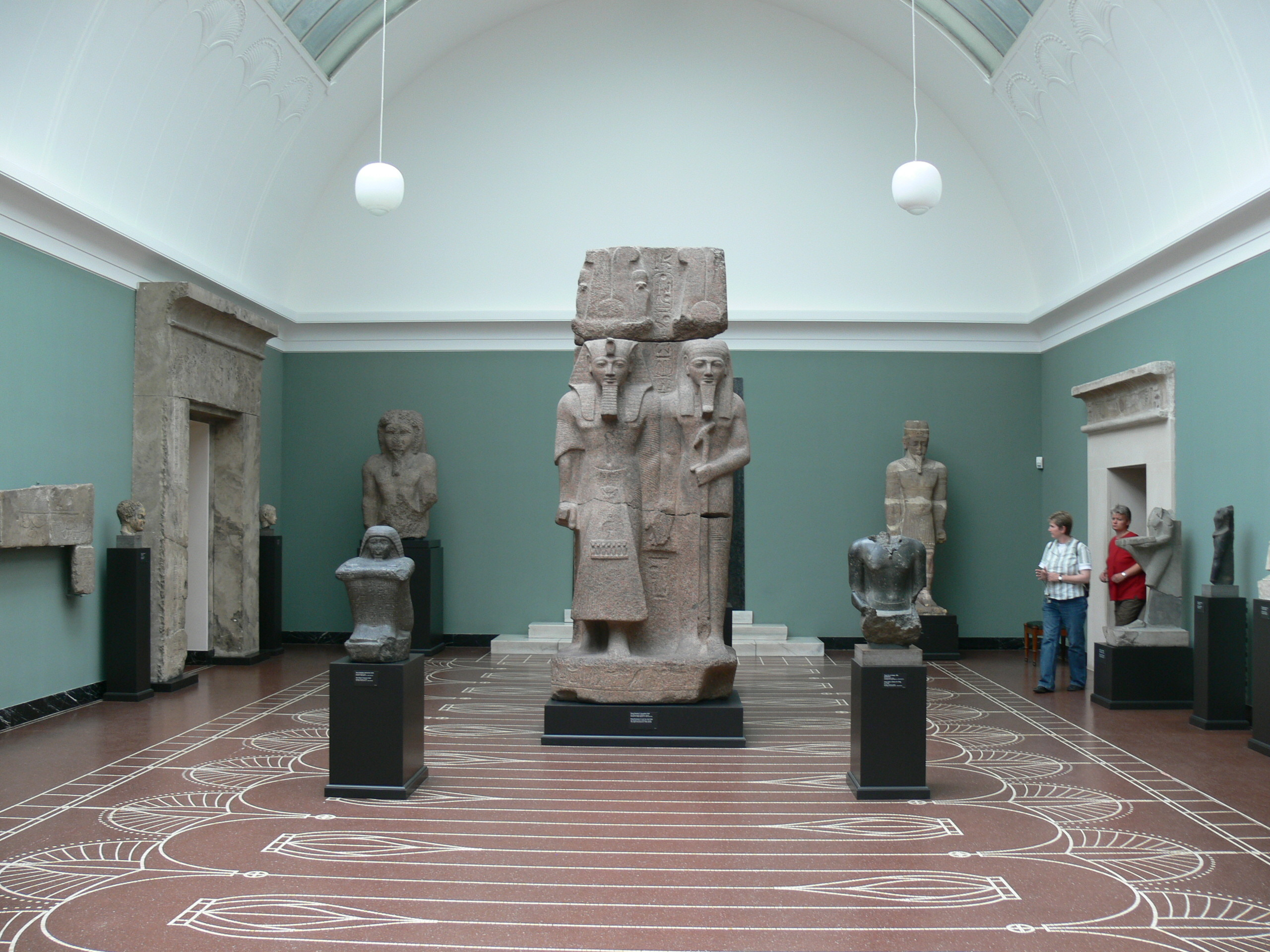 Egyptian collection in Ny Carlsberg Glyptothek, Copenhagen. Exhibition room